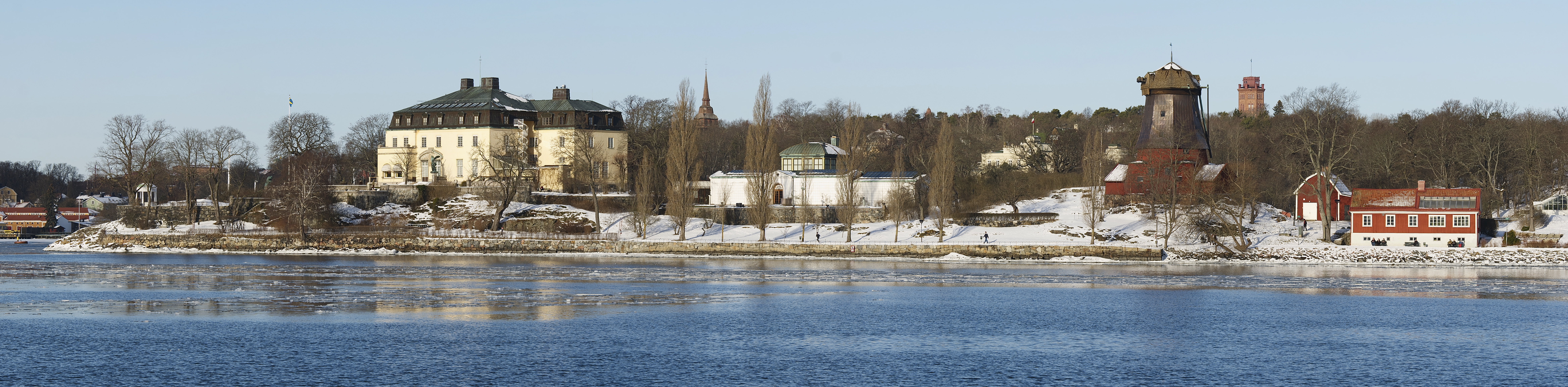 Waldemarsudde (Swedish: "Cape of Waldemar"), former home of the Swedish Prince Eugene, is a museum located on Djurgården in central Stockholm. The complex consists of a castle-like main building - the Mansion - completed in 1905 (architect Ferdinand Boberg), and the Gallery Building, added in 1913. The estate also includes the original manor-house building, known as the Old House and an old linseed mill, both dating back to the 1780s.